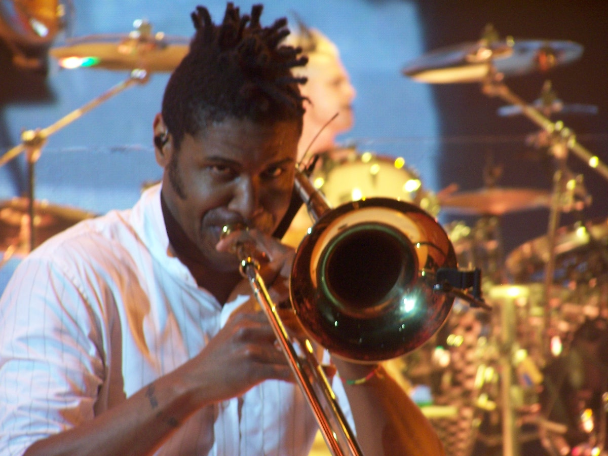 No Doubt performing in Milwaukee.